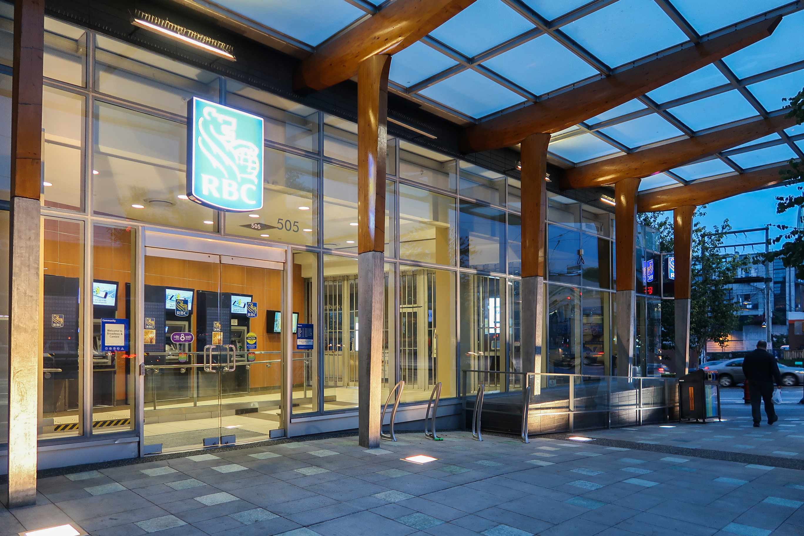 Royal Bank of Canada in Fairview Broadway